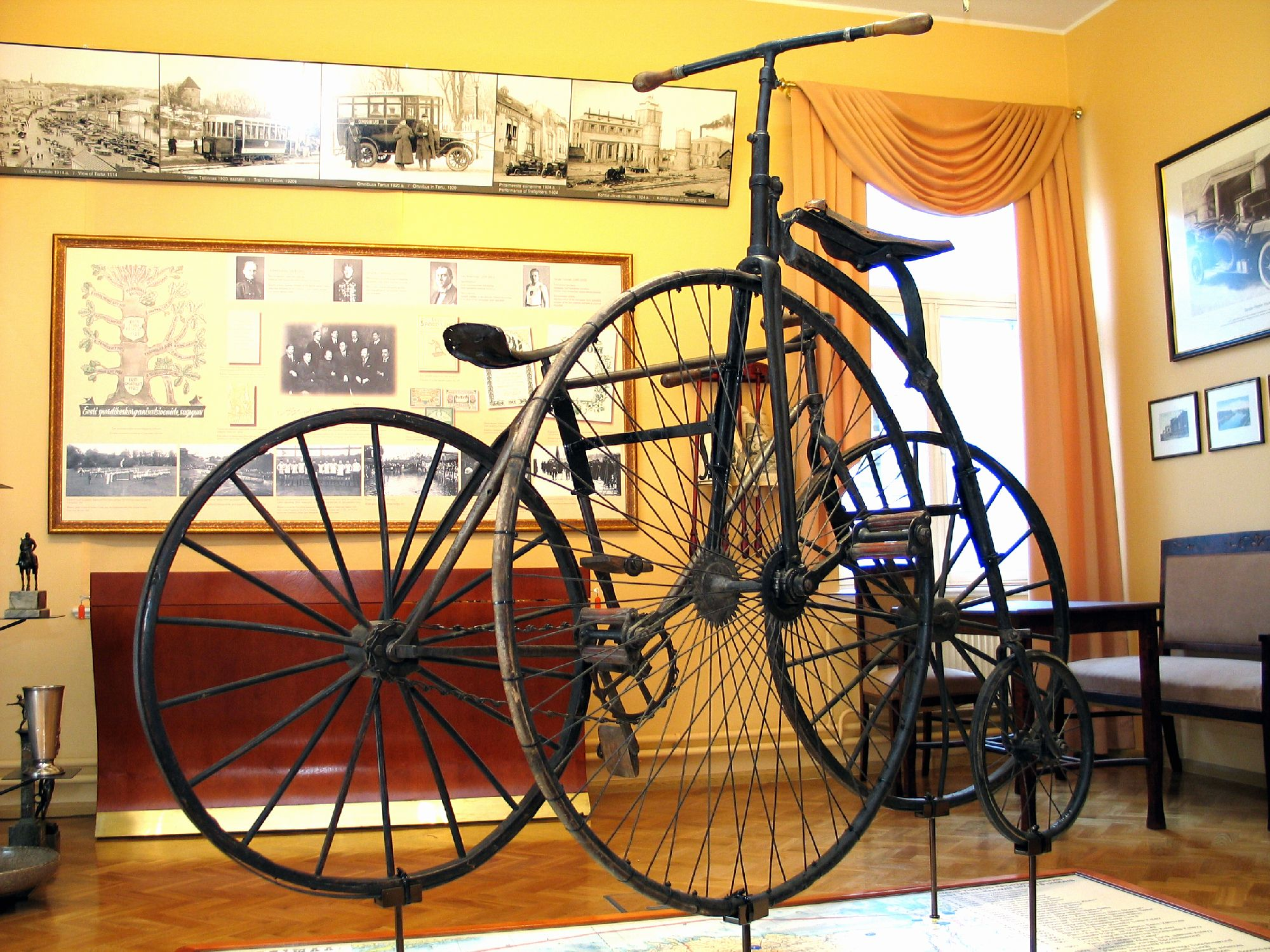 Estonian Sports Museum - early bikesEesti: Eesti Spordimuuseum